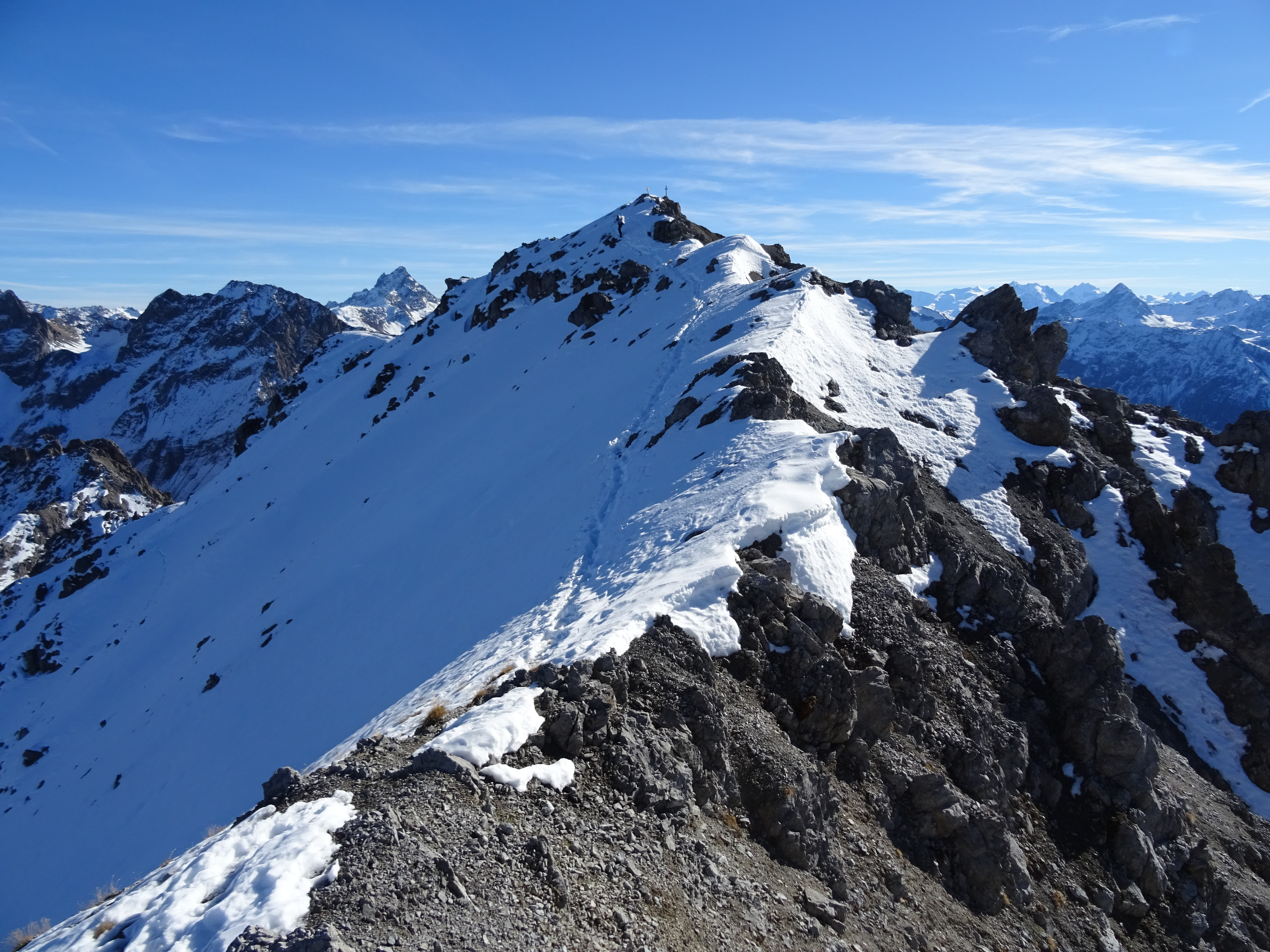 Büelenhorn, picture taken from Northwest (Davos, Grison, Switzerland)